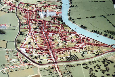 Part of the Worcester City museum collection. Built by Hugh Watson and Dave Austin, and Jeremy Burr; photographed by Museums Worcestershire.